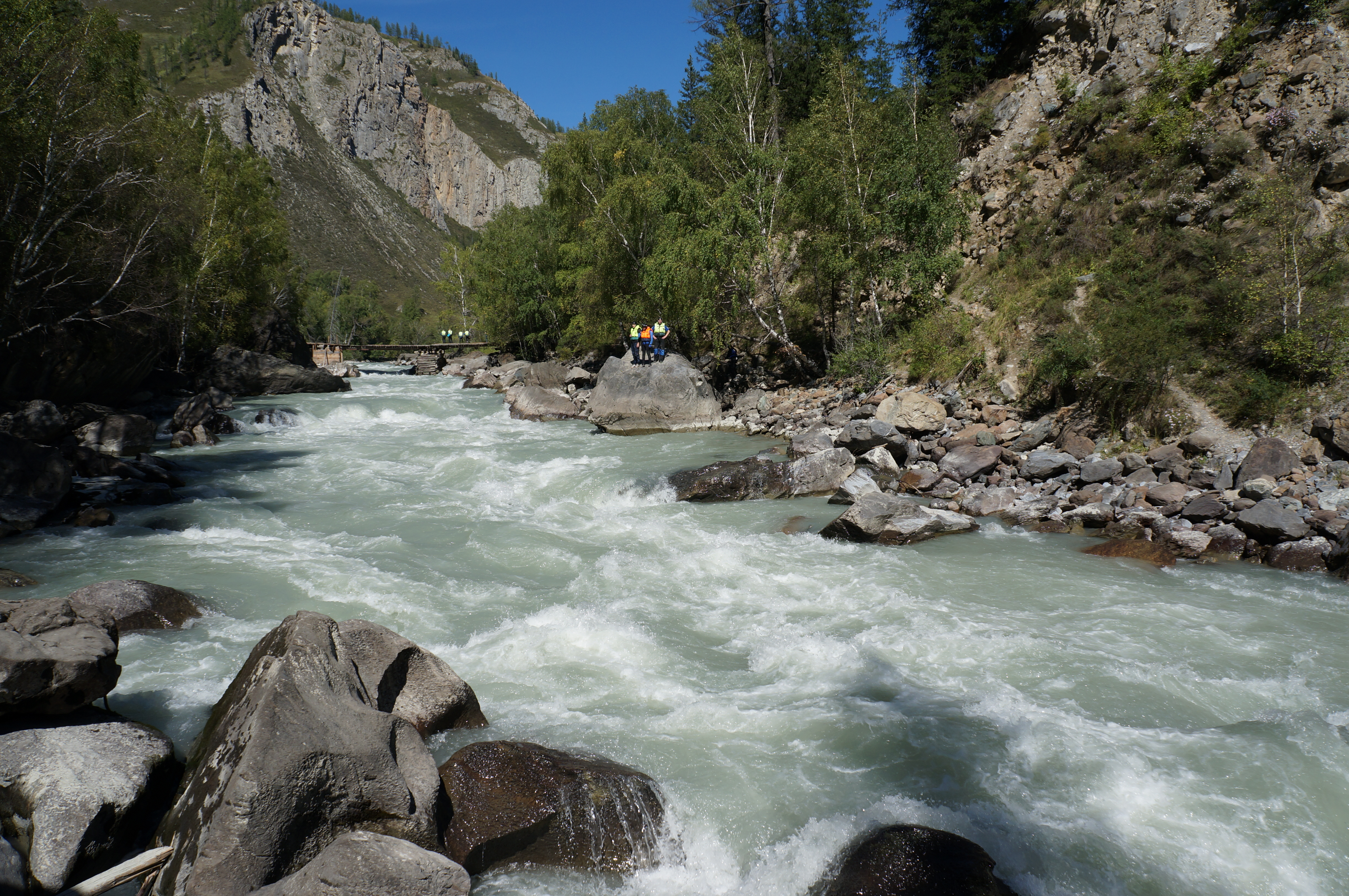 The Begemoth rapid on Chuya River, 5th category (Altai Republic, Russia, August 2014)